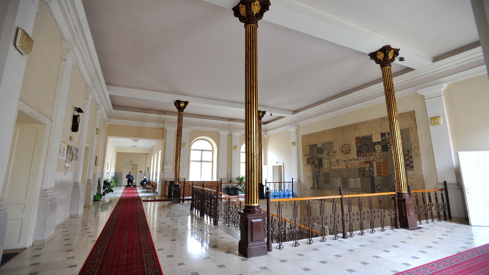 The building of the District Court in Smederevo- interior